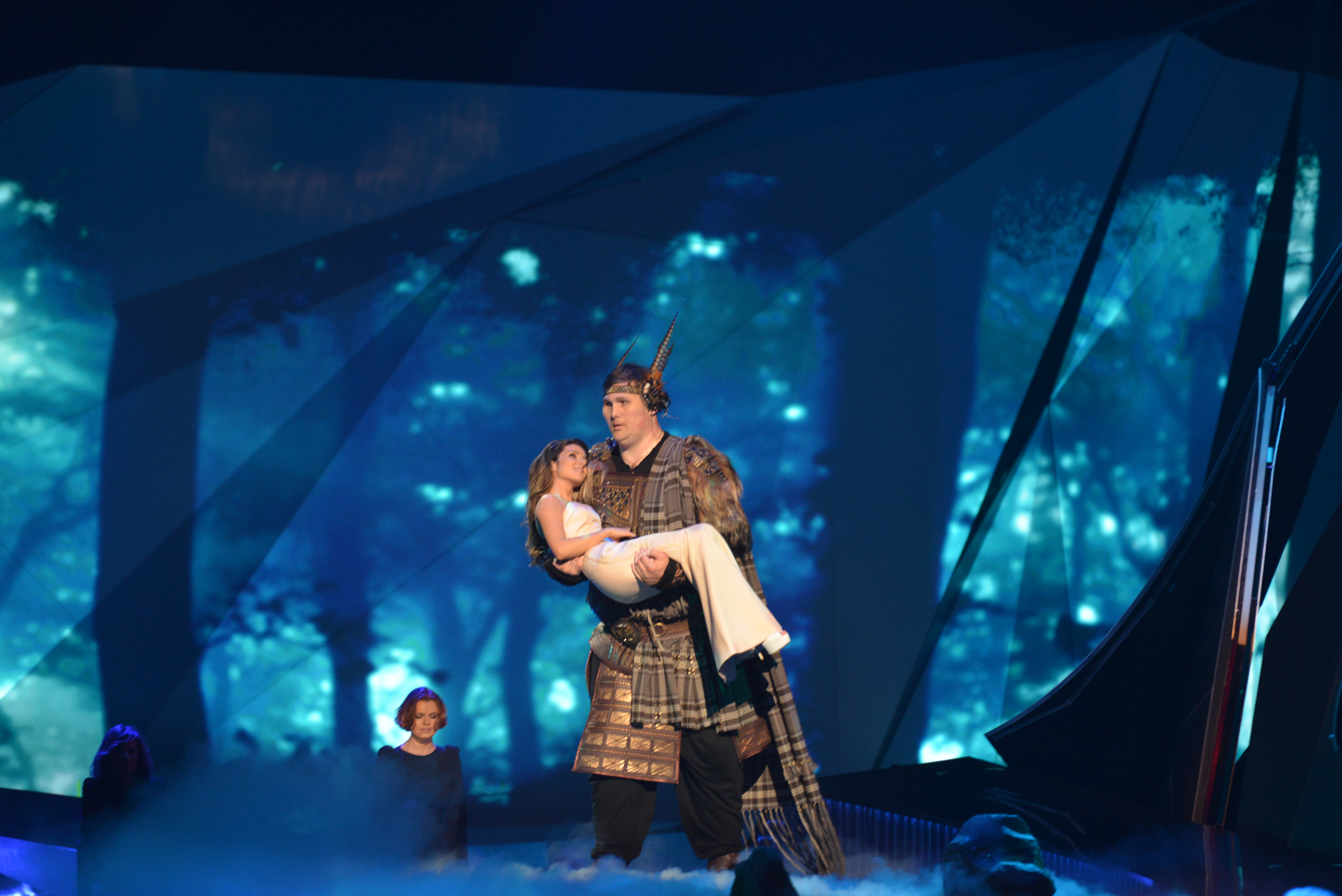 Zlata Ognevich representing Ukraine with the song "Gravity" during the first dress rehearsal of the first semi final of the Eurovision Song Contest 2013 Malmö. (Help translate this text)